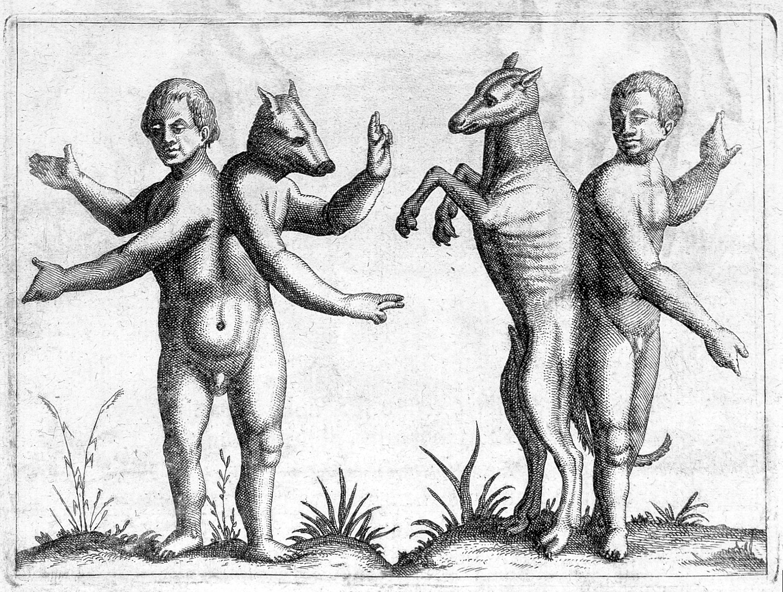 Two figures showing a half human, half dog monster Rare Books Keywords: Abnormalities; Abnormality; Monsters; Chimera